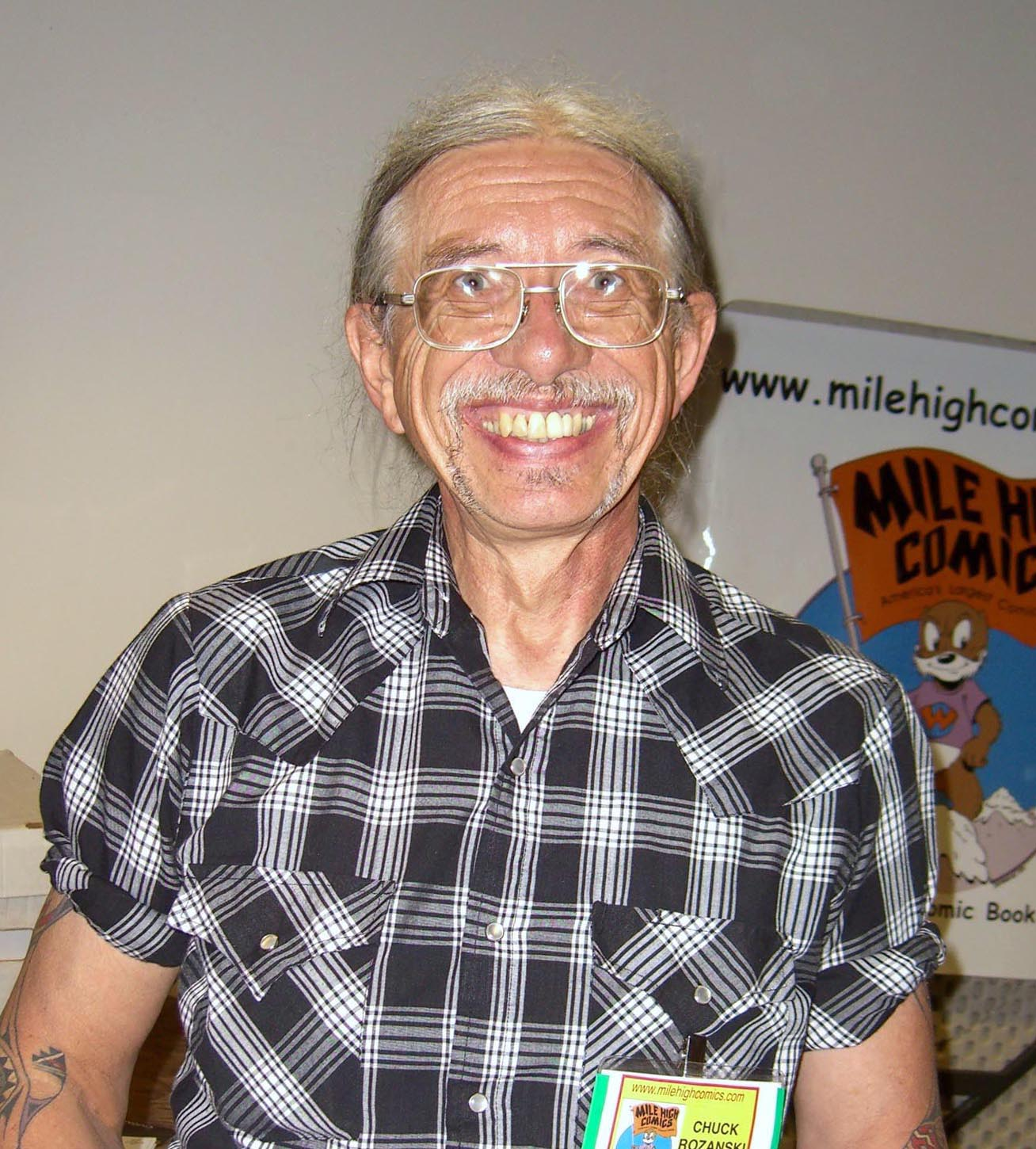 Comics retailer and columnist Chuck Rozanski at the Big Apple Convention in Manhattan, May 22, 2011. Photographed by Luigi Novi. This photo is not in the public domain. It may, however, be used, modified and published for any purpose, free of charge, only if the photographer is properly credited, either by linking the photograph to this page, or with an easily visible credit to the photographer placed near the photo in each instance in which it is used. (See licensing information below.) Publication of this photo without this proper attribution constitutes copyright infringement. If you have any questions, you can contact me on my Wikipedia Talk Page.